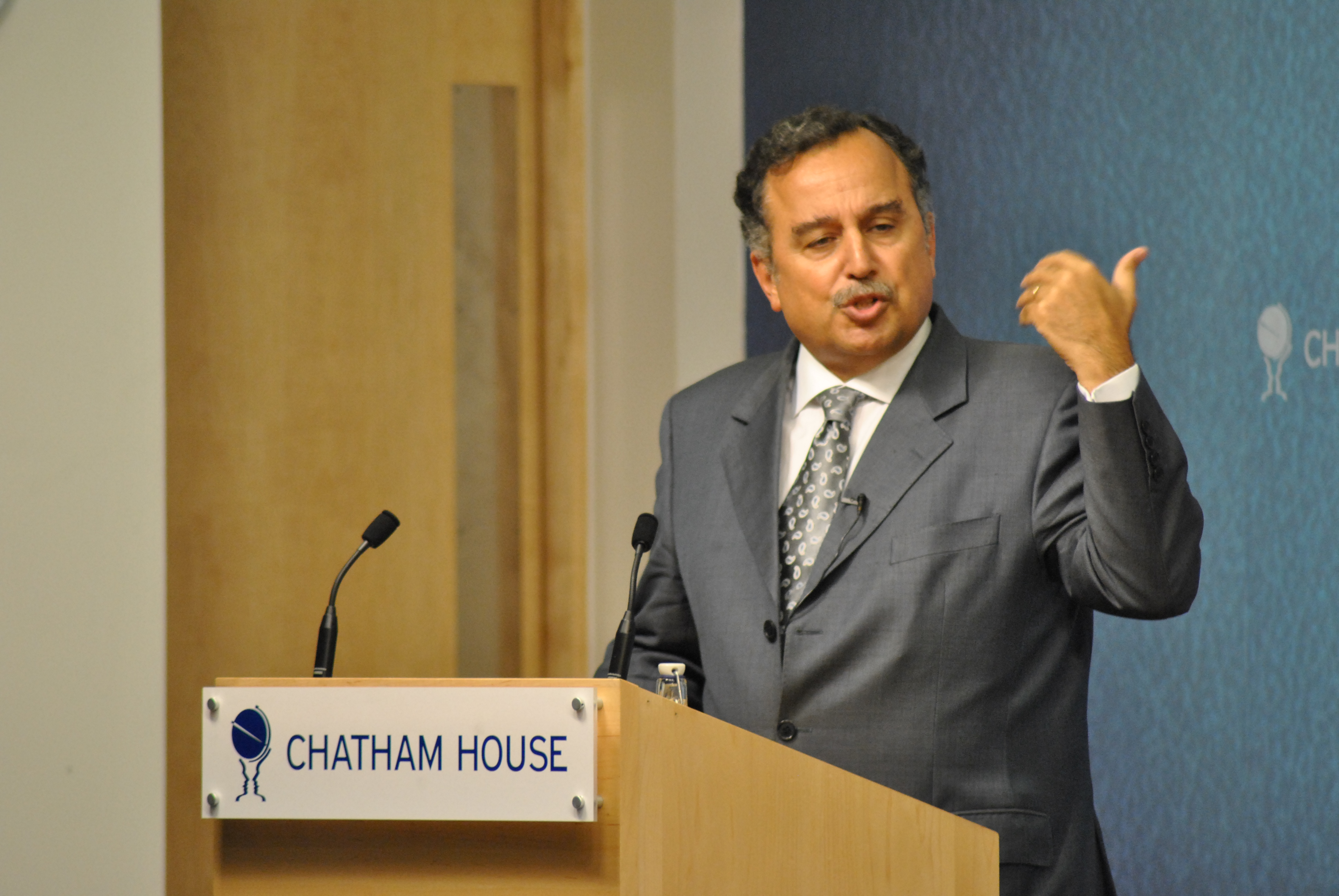 Ambassador Nabil Fahmy, Dean at the School of Public Affairs, American University in Cairo, discussed the evolving events in North Africa and the Middle East - 23 June 2011